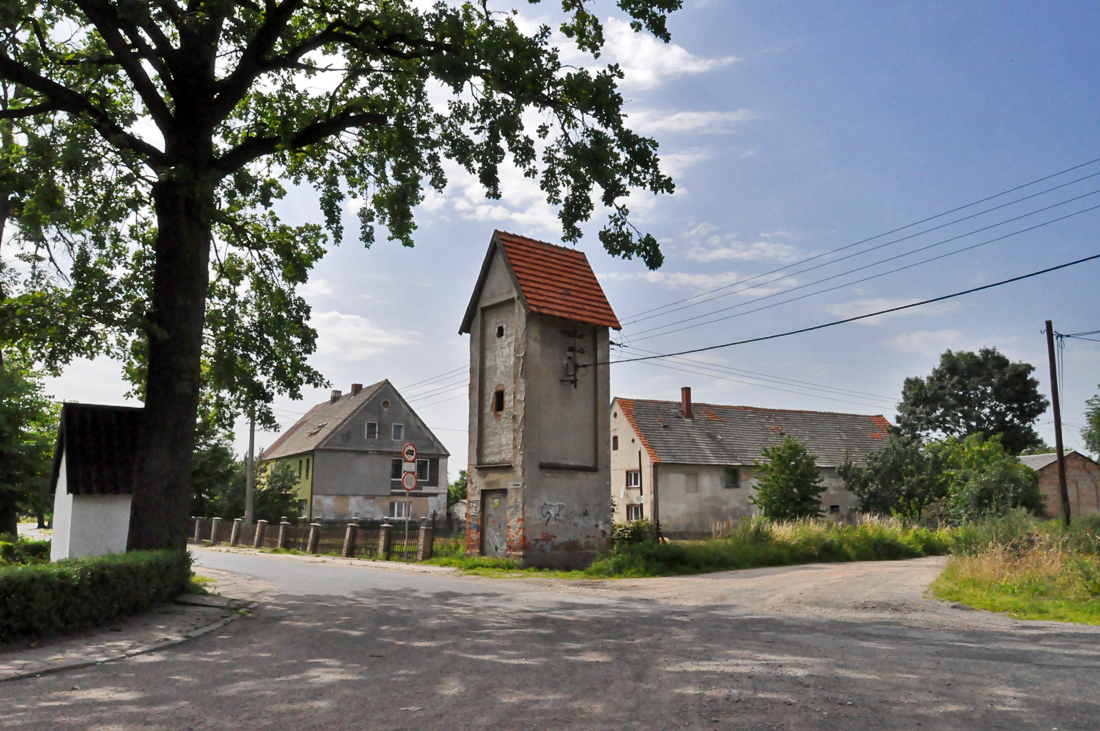 Crossing in the village